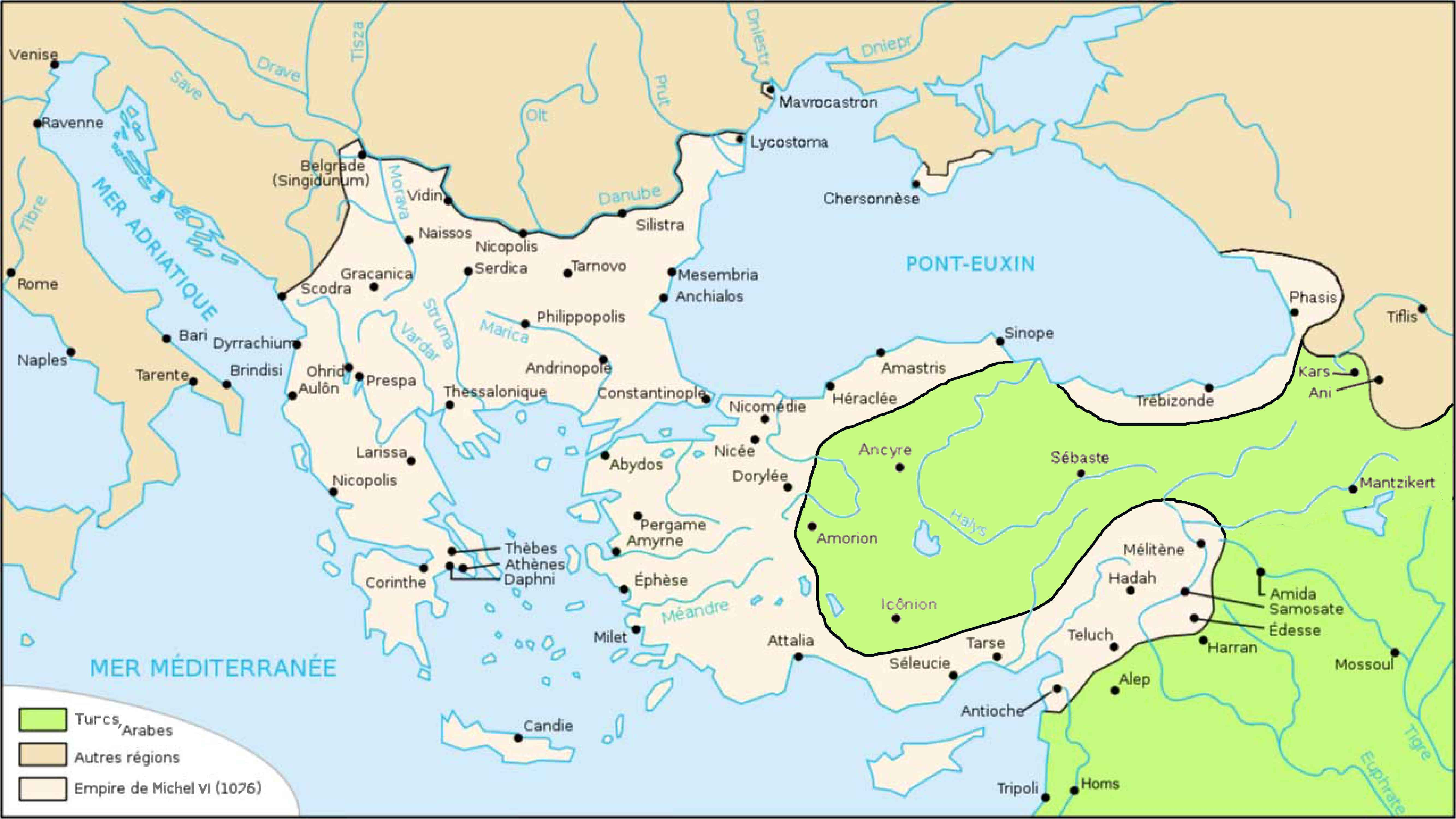 Uploaded to replace "Map Byzantine Empire 1076-fr.svg", which is wrong because since all historic atlases and also John Haldon : Warfare, State And Society In The Byzantine World 565-1204 (Routledge 1999) ISBN 1-85728-494-1, Maps IV et follow., & Piers Paul Read, "The Templars", London, Phoenix Press, Orion Publ. Group, 2001, ISBN 978-0-7538-1087-3, pp. 65-66, & Claude Mutafian and Éric van Lauwe, Atlas historique de l'Arménie, ed. Autrement, Paris, 2001, ISSN 2-7467-0100-6, pp. 52-53, after Mantzikert (1071), under Michael VI Dukas, the Turks annexed central Anatolia (not the west, not the coast and not Cilicia, later conquested).